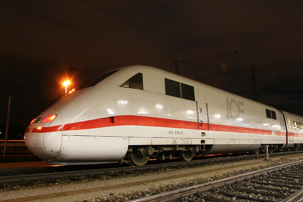 The powerhead 401 514 of an ICE 1 high-speed train at Nürnberg Hauptbahnhof (Nuremberg main railway station)